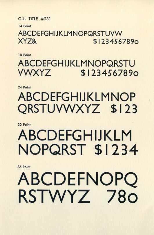 A metal-type specimen sheet of Gill Sans. Note the variant '7' and 'Q' in some sizes.